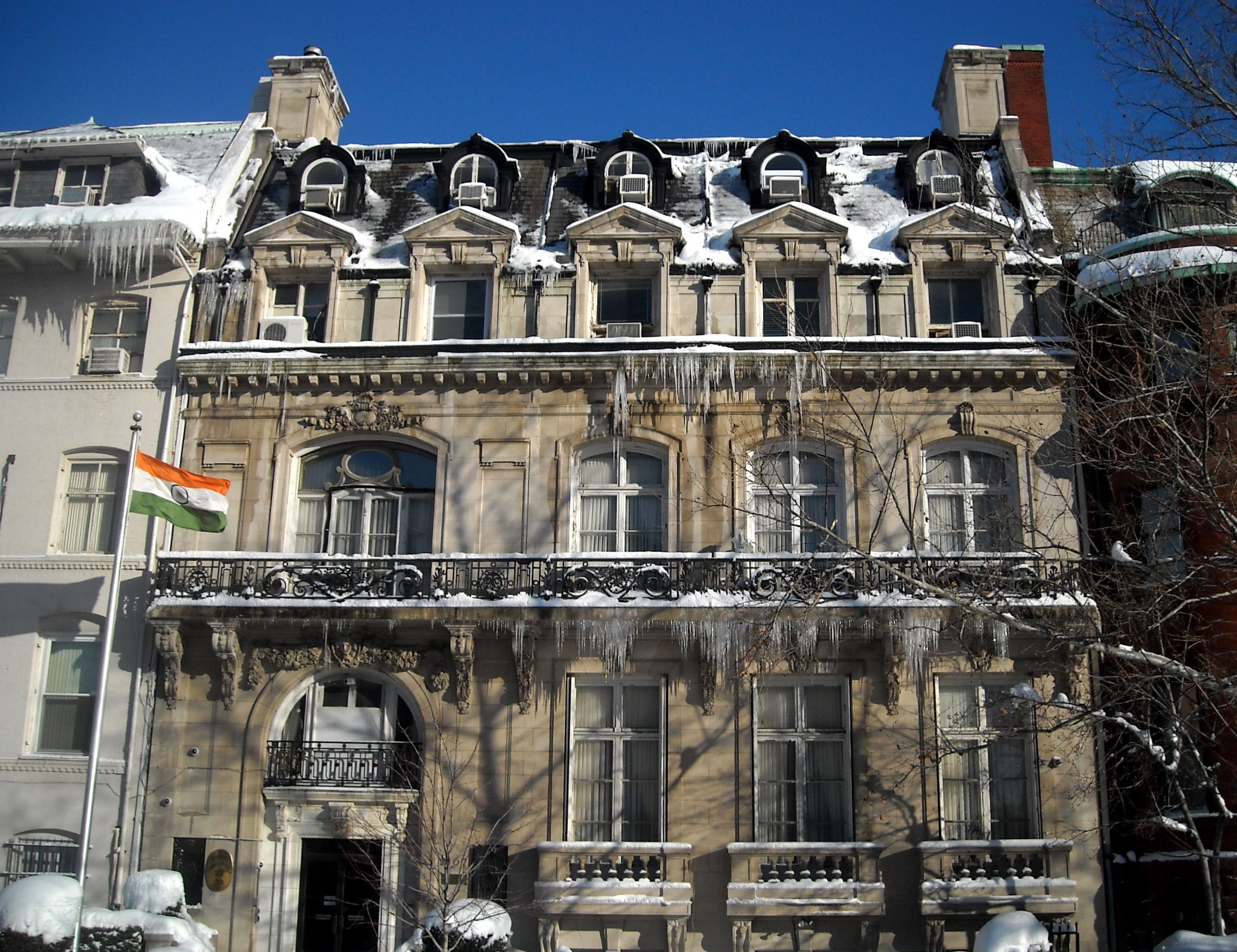 The Embassy of India, located at 2107 Massachusetts Avenue, N.W., in the Dupont Circle neighborhood of Washington, D.C., following the Second North American blizzard of 2010.